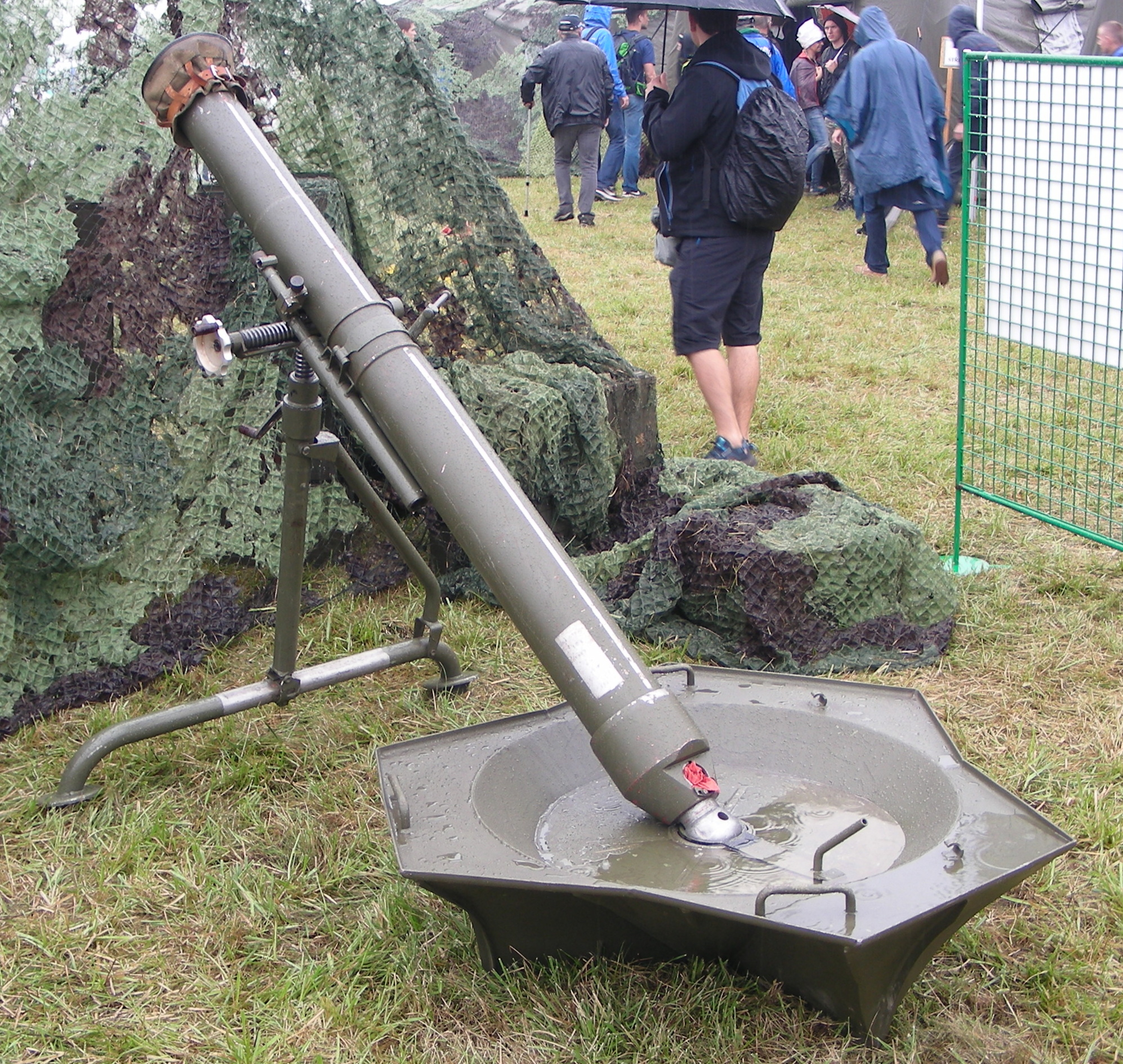 120mm mortar vz. 82 of the Czech Army.